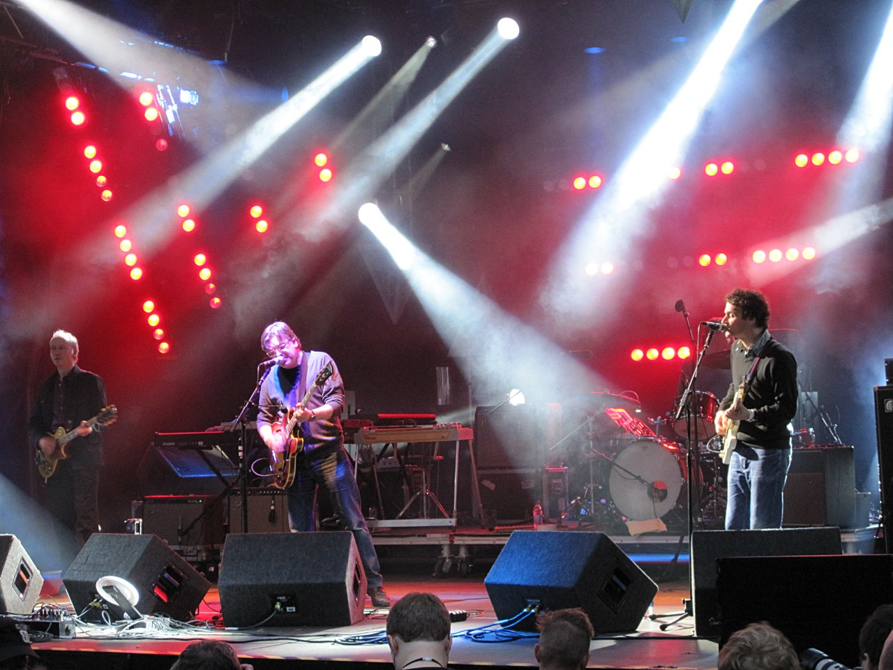 Teenage Fanclub performing at the Summer Sundae festival, Leicester